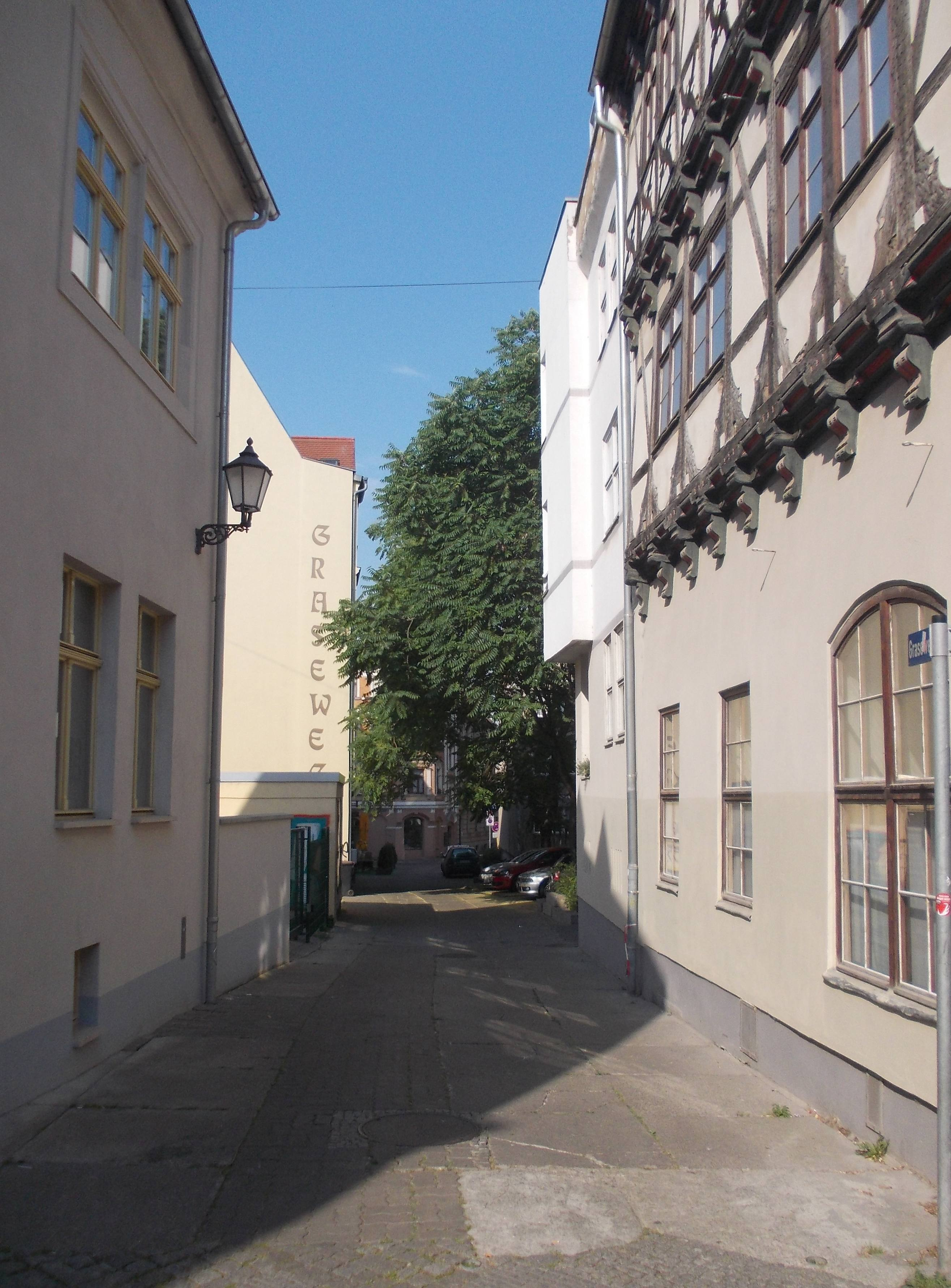 Graseweg street in Halle/Saale (Saxony-Anhalt)